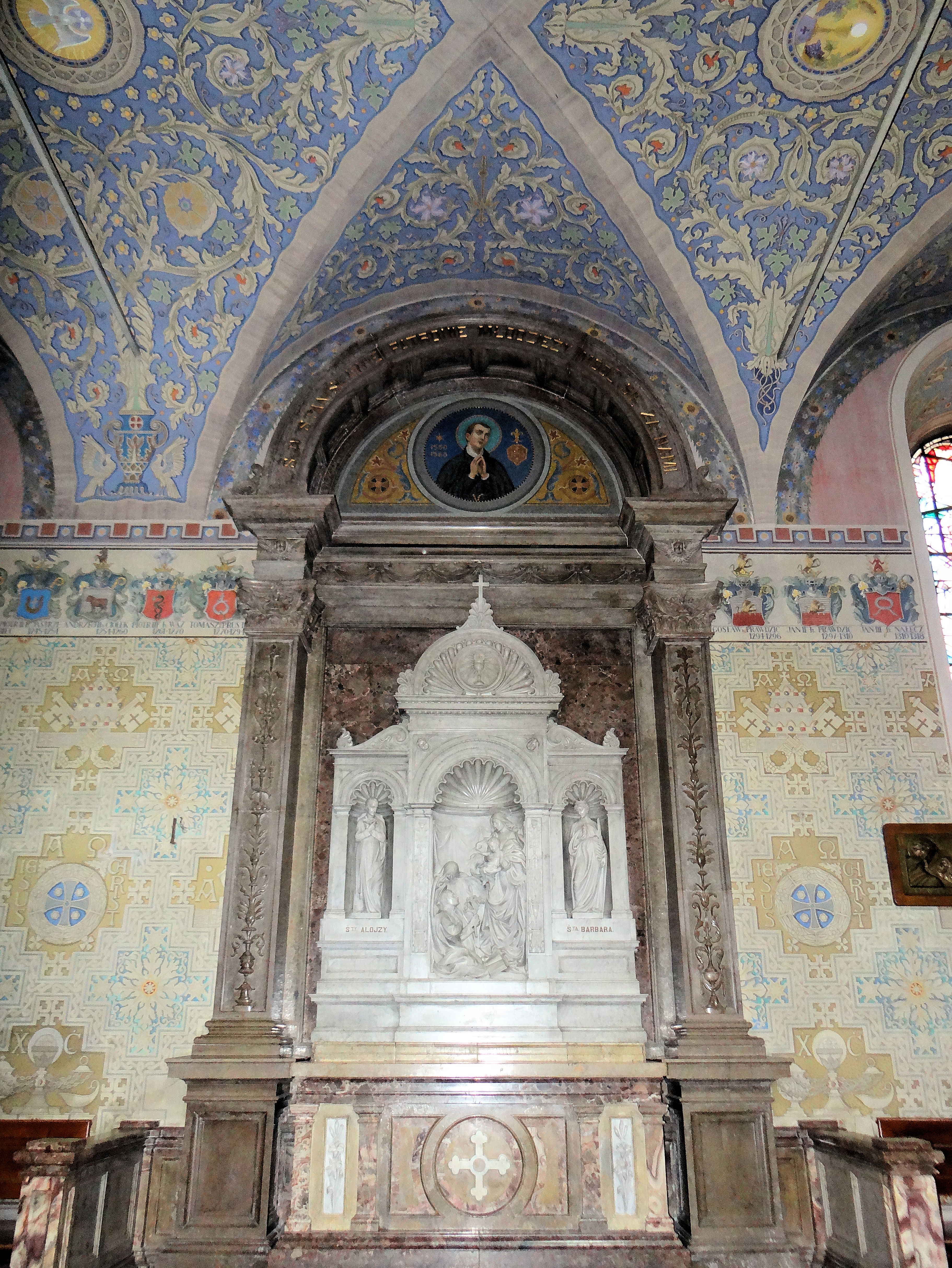 Altar of Płock Cathedral